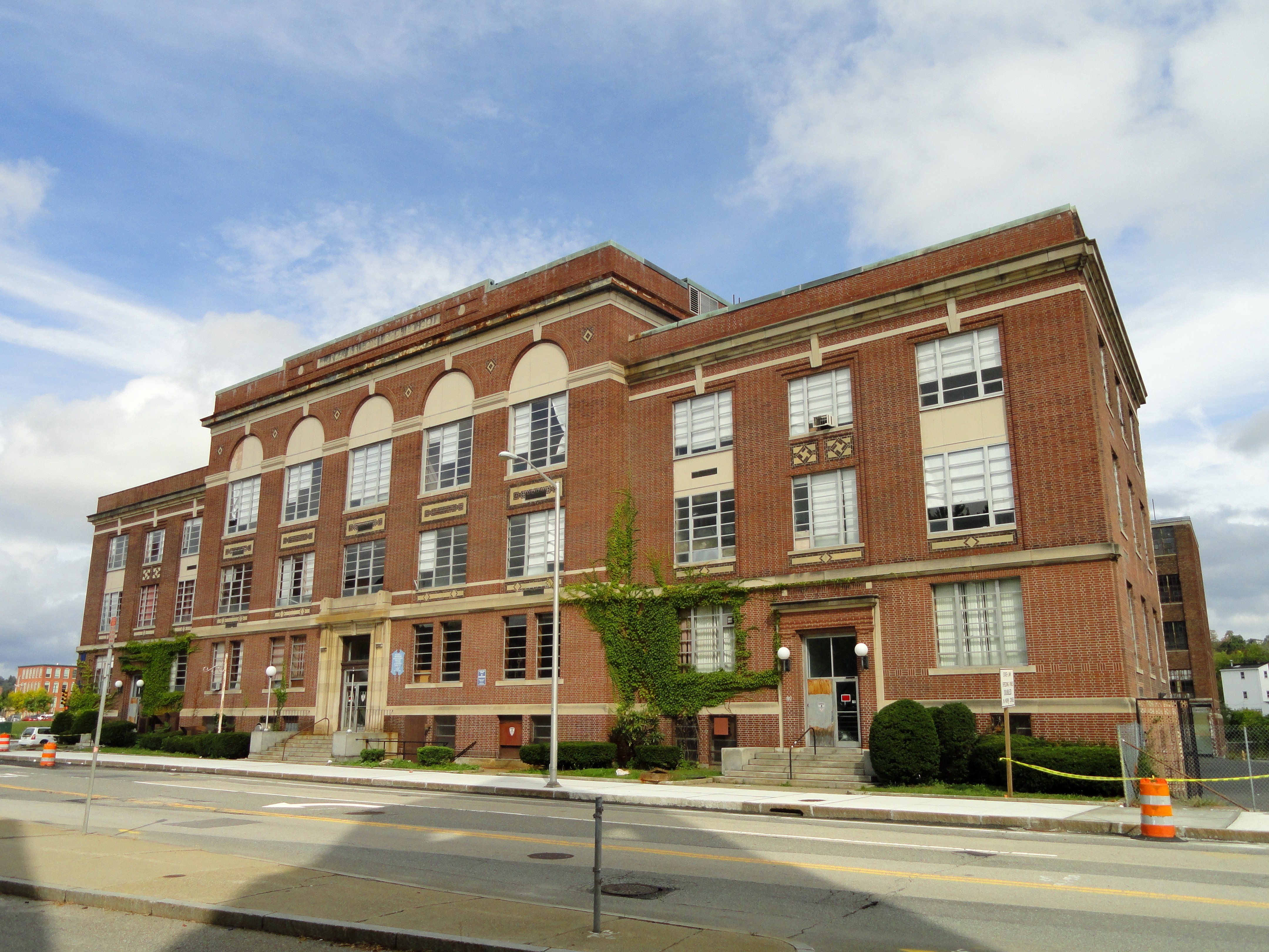 The former Worcester Boys Trade School, Worcester, Massachusetts, USA.